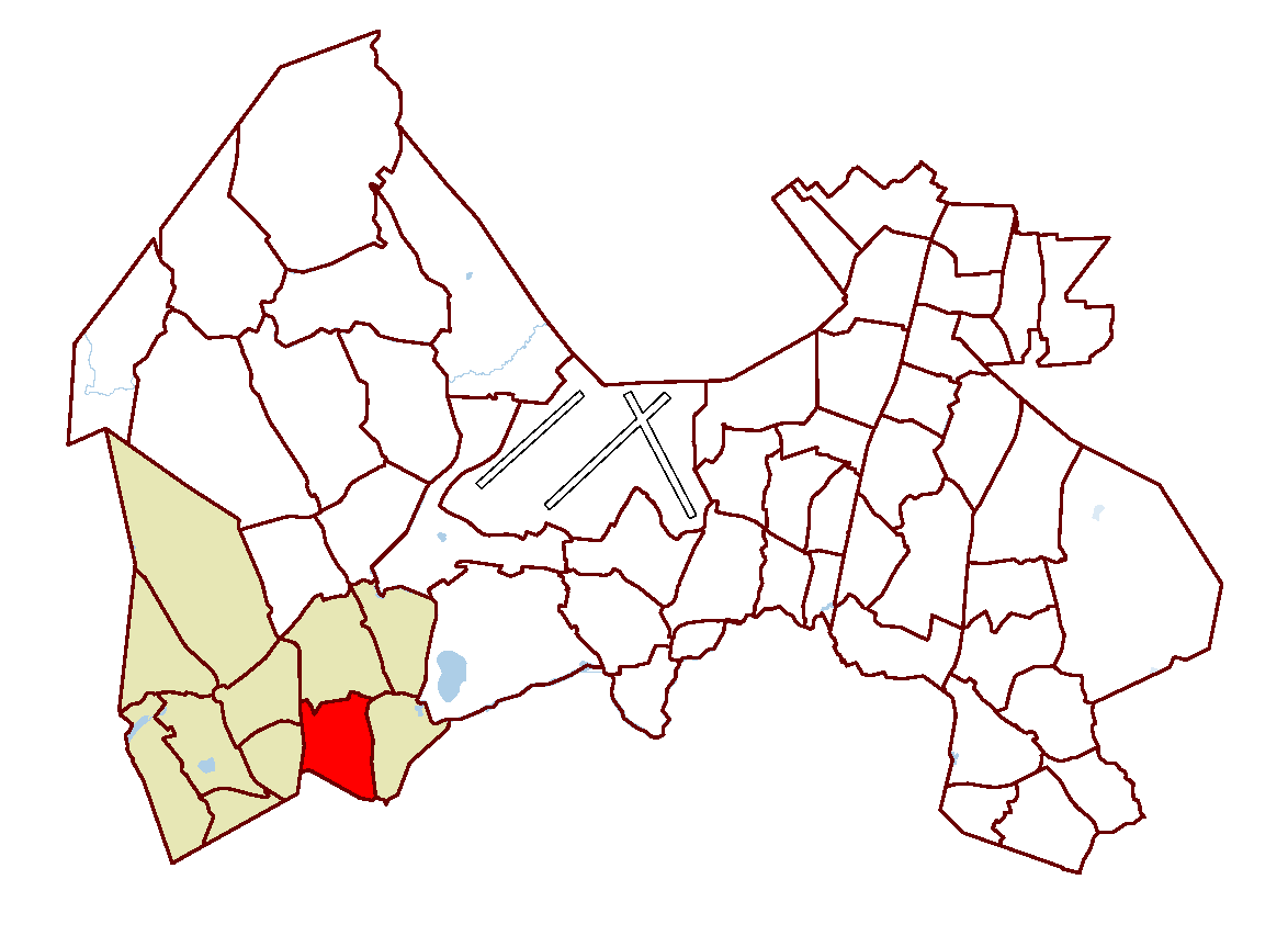 District of Myyrmäki (marked red), within Myyrmäki service area (marked light brown) in Vantaa, Finland